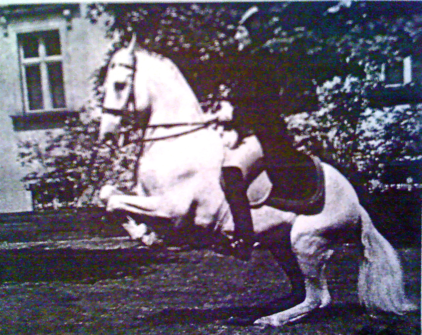 Reitmeister Gottlieb Polak on Conversano Stornella in the Levade